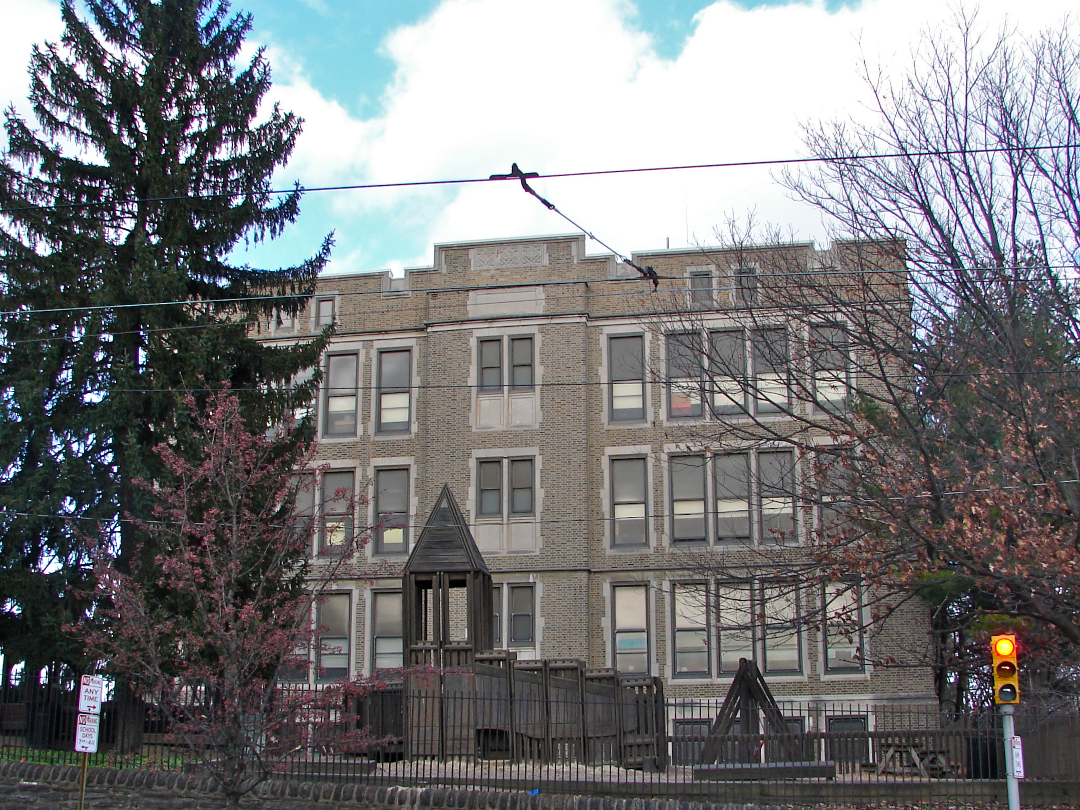 J. S. Jenks at 8301 Germantown Ave., Philadelphia, was built in 1922-1924 in Tudor Revival/Late Gothic Revival style and designed by Irwin T. Catherine, longtime architect for the School District. The building is yellow brick and is relatively ornate with a parapet and stylized Flemish gable at the top of the building. The school is on the National Register of Historic Places and is also in the Chestnut Hill Historic District on the NRHP.